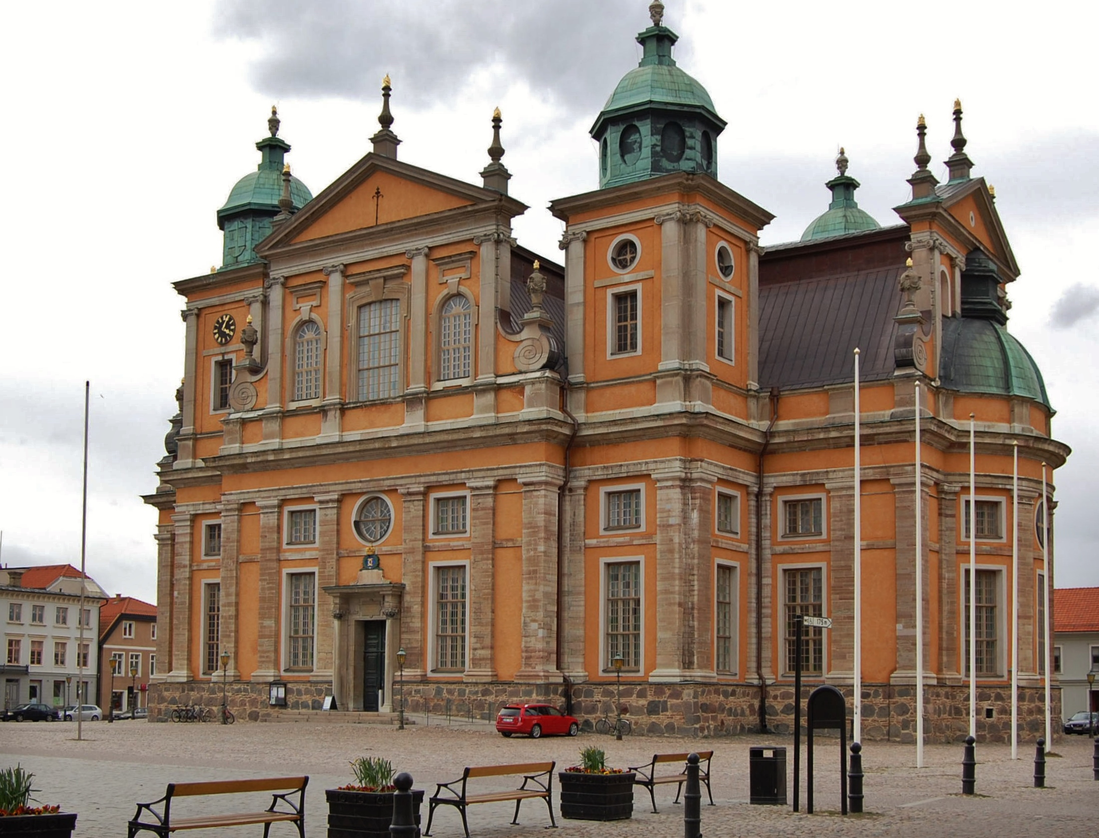 Kalmar Chatedral. The Church was built in three phases after drawings by Castle architect Nicodemus Tessin the elder. Church began in 1660. It was scarcely half finished 1682. It was completely finished in 1703.